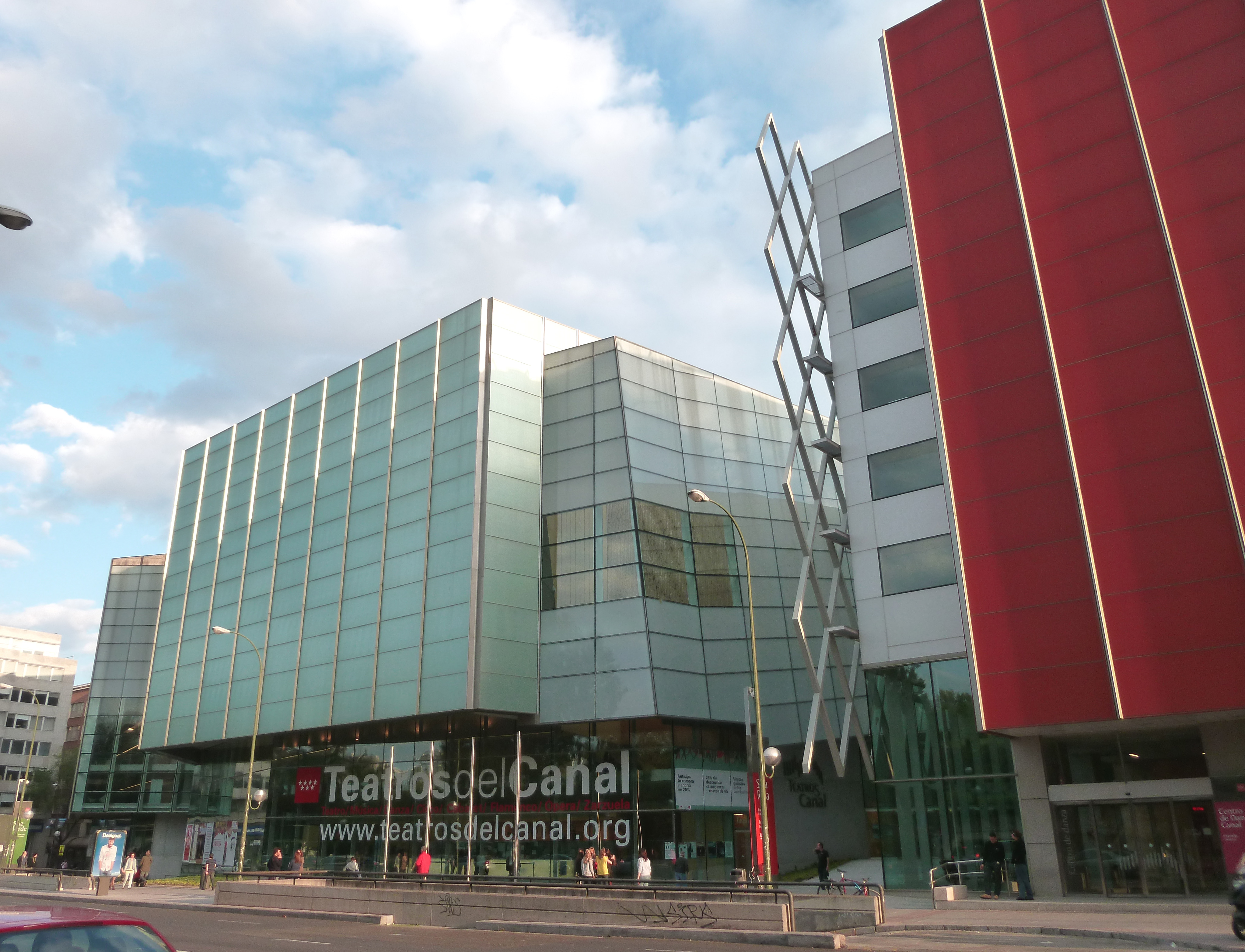 North façade of Teatros del Canal in Madrid (Spain).